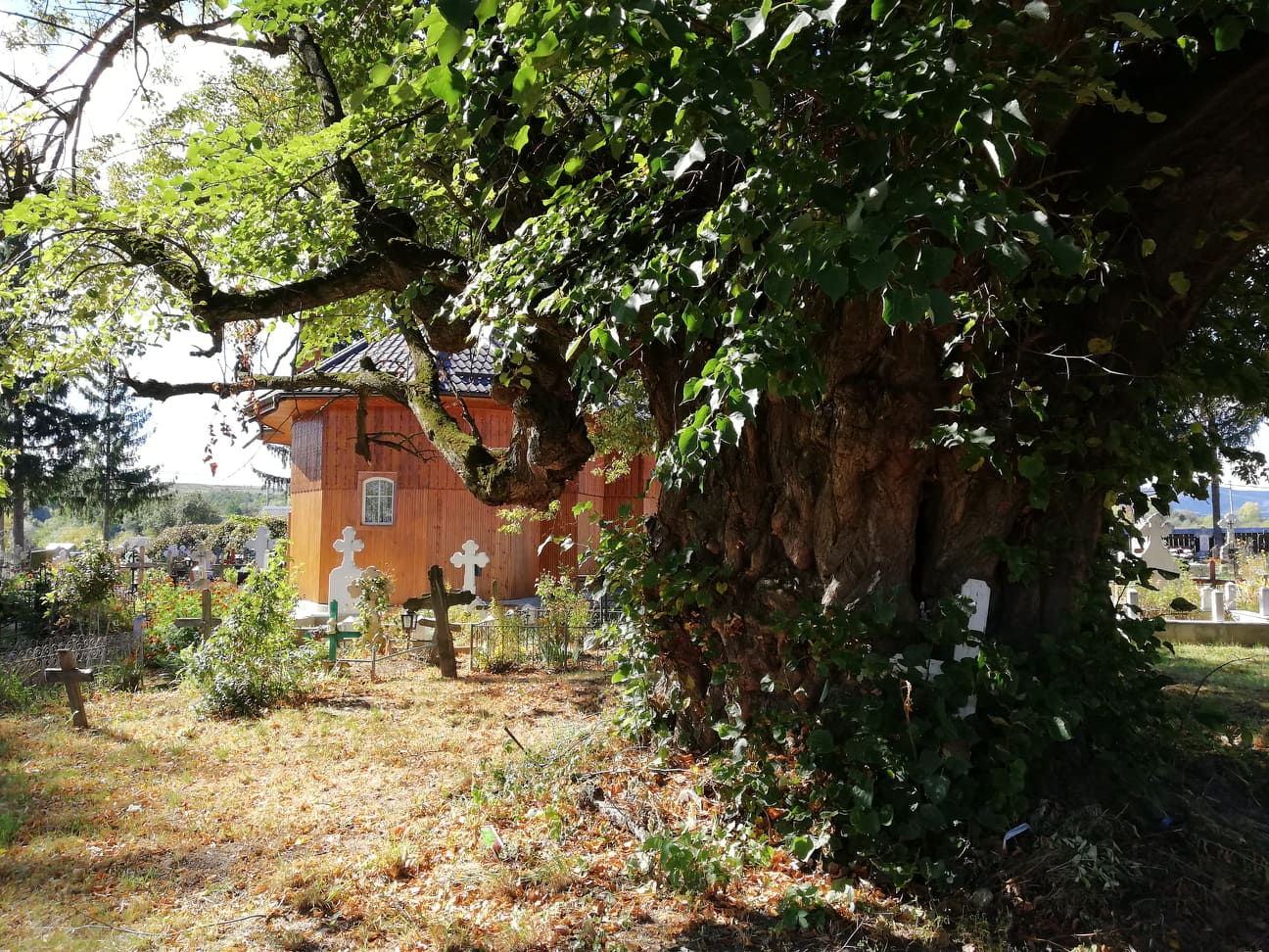 Teiul secular de la Biserica Târzia, Neamț